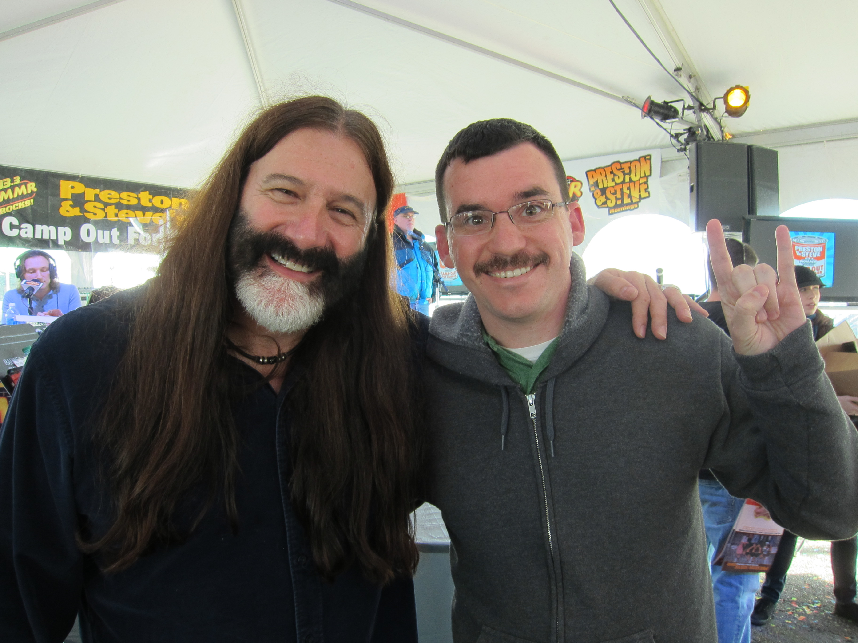 Pierre Robert (left) at WMMR's Preston and Steve Campout for hunger 2011